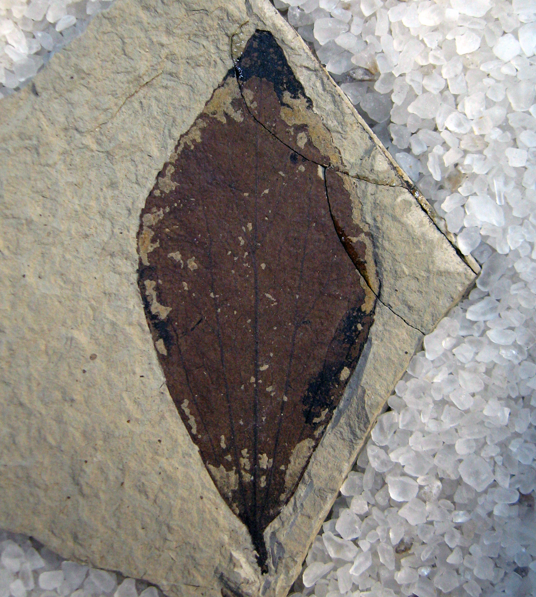 Specimen of the extinct Trochodendron nastae. 49.5 Million Years old; "Boot Hill", Klondike Mountain Formation, Republic, Washington, USA. Stonerose Interpretive Center Collection # SR 08-44-01.